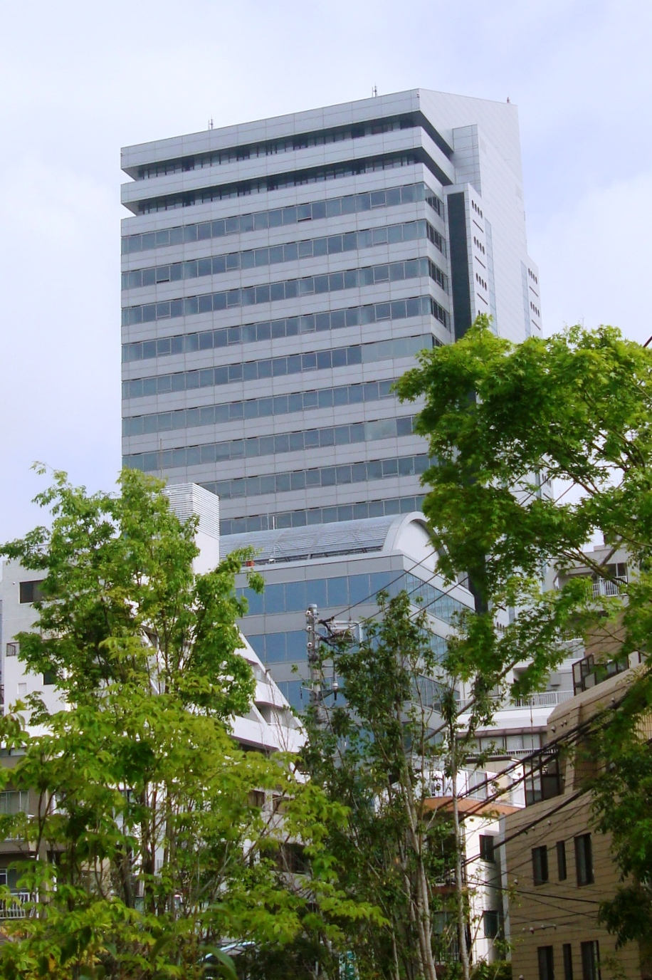 Shibuya Infoss Tower, Shibuya city, Tokyo